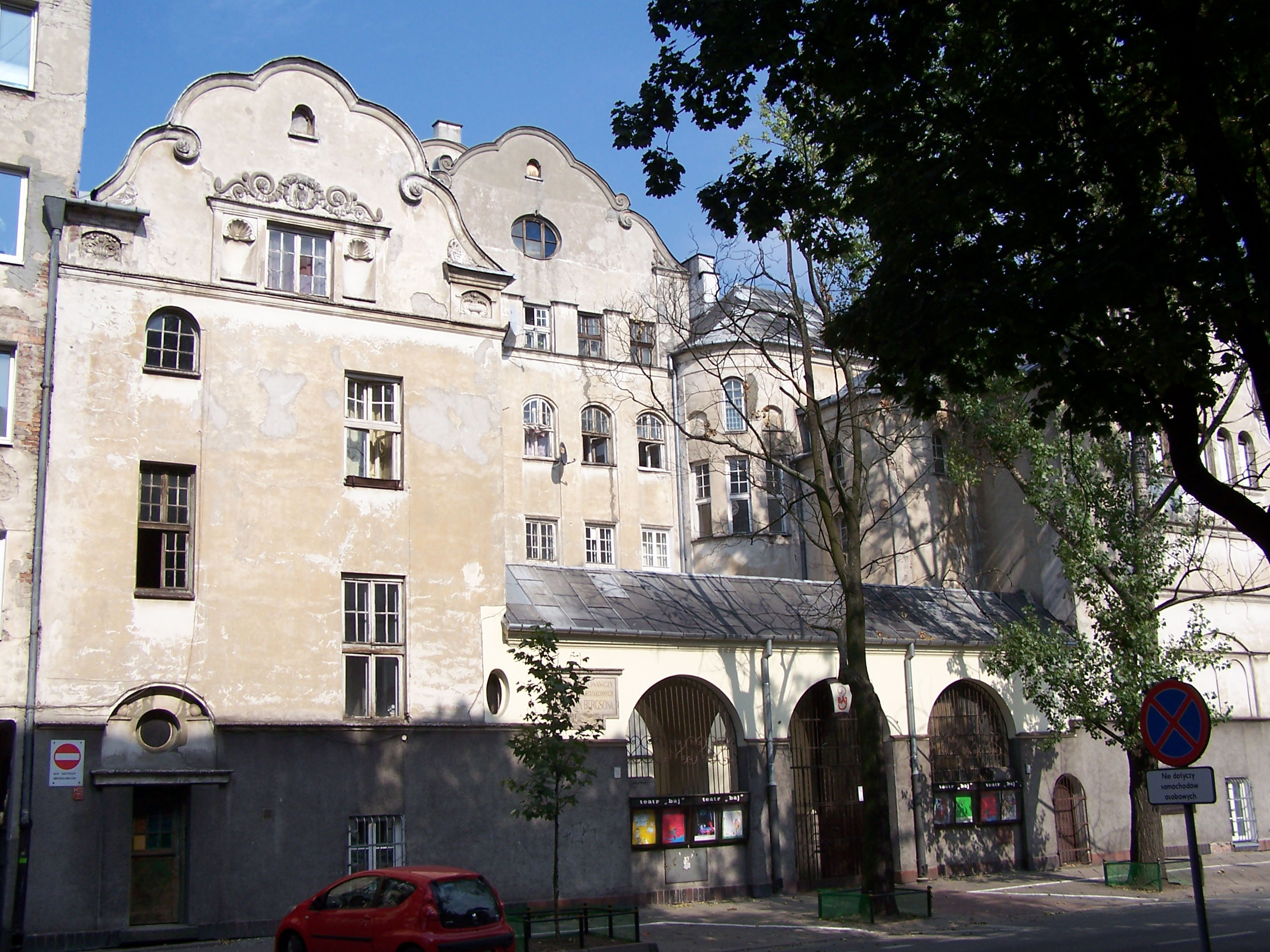 Building of Teatr Baj in Warsaw, Poland